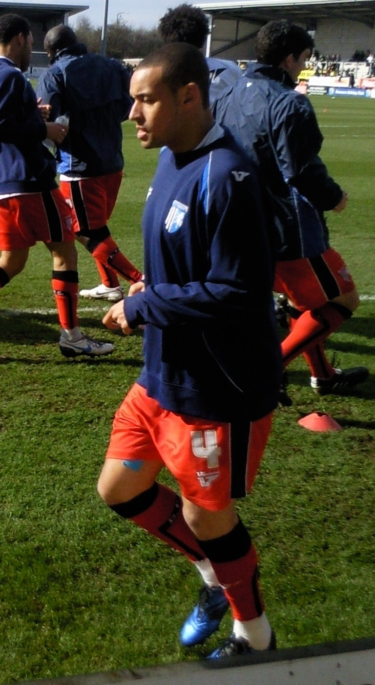 Curtis Weston photographed on 19/3/11. I took the picture myself.